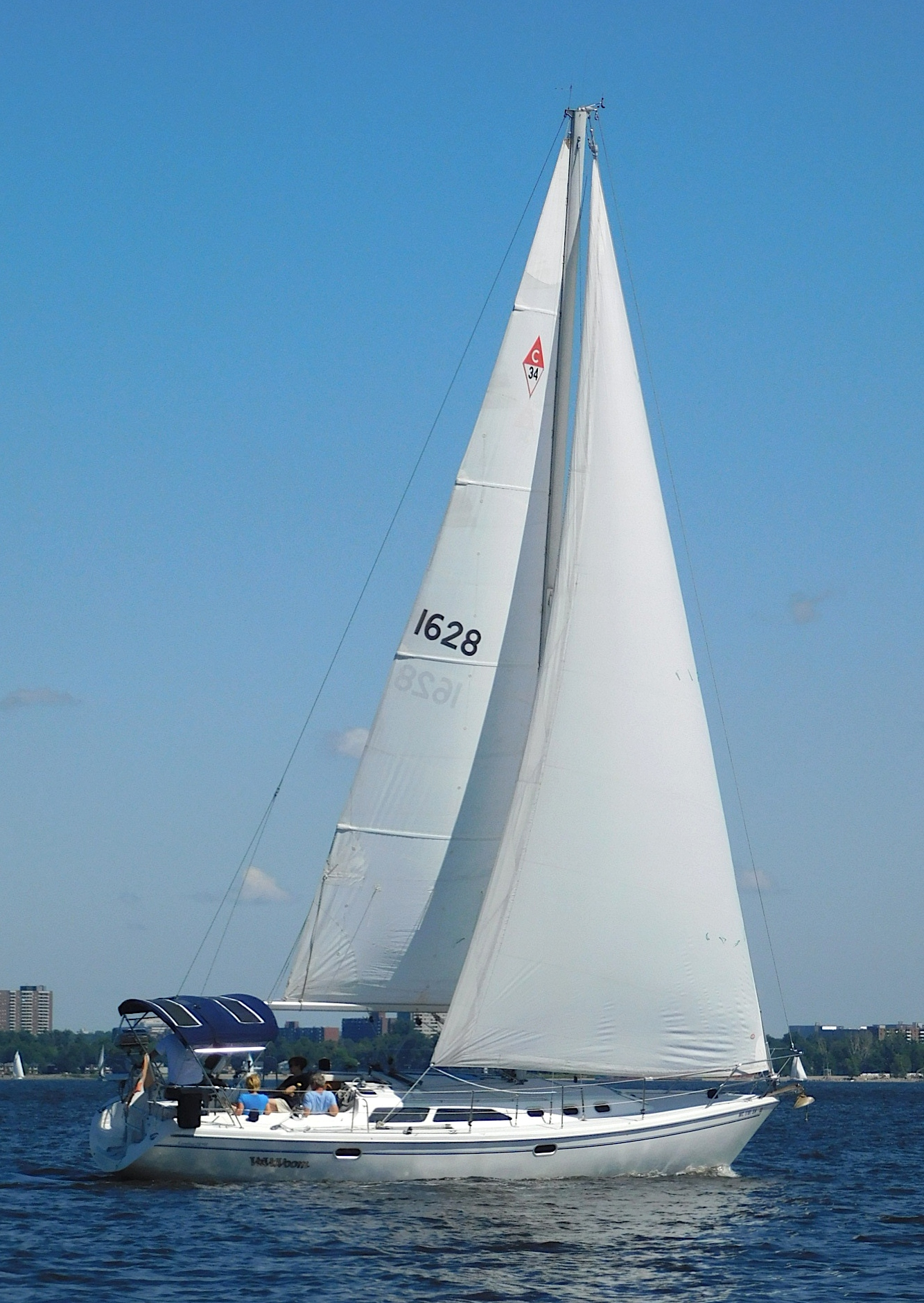 A Catalina 34 Mark II sailboat named Va Va Voom.